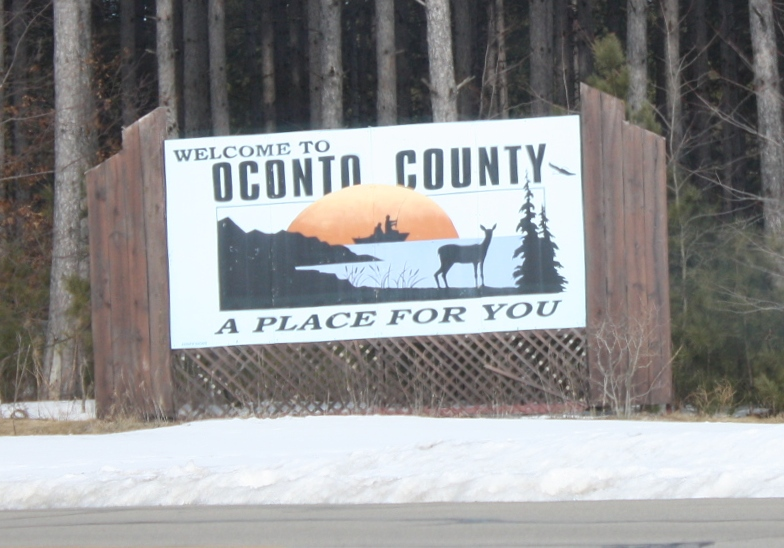 A welcome sign for Oconto County, Wisconsin.